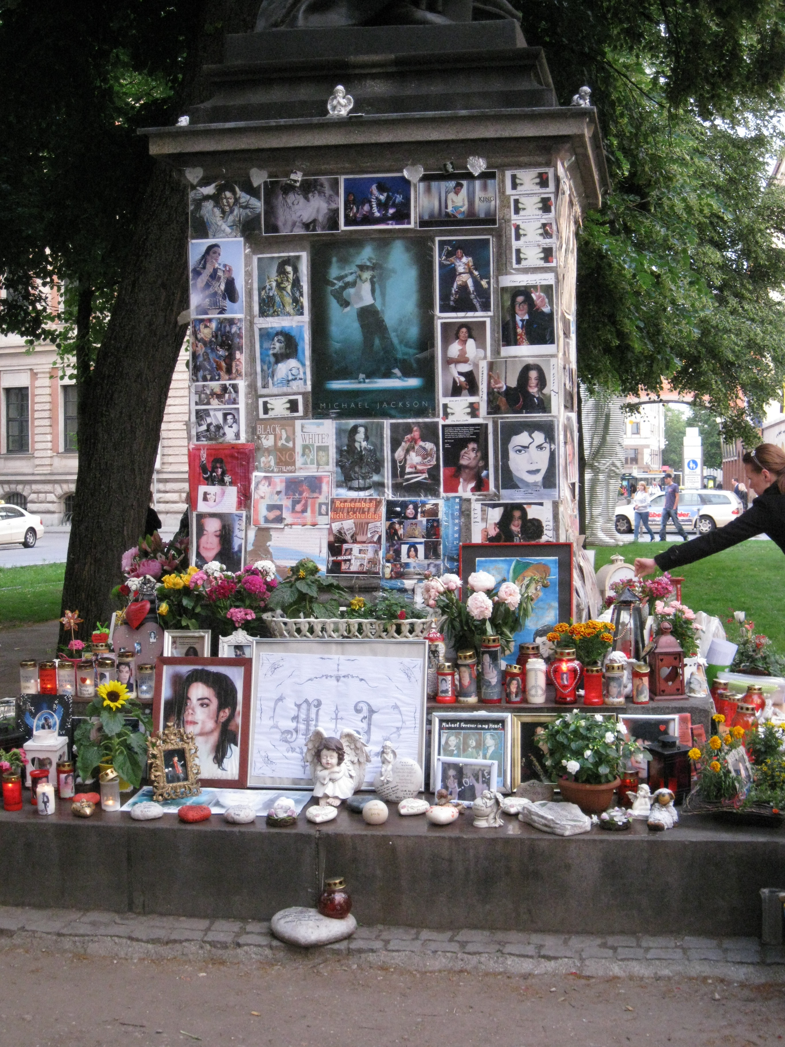 Memorial for Michael Jackson in Munich. Located just in the opposite of the hotel "Bayerischer Hof", where Jackson spent some nights (+ showing his baby at the window)